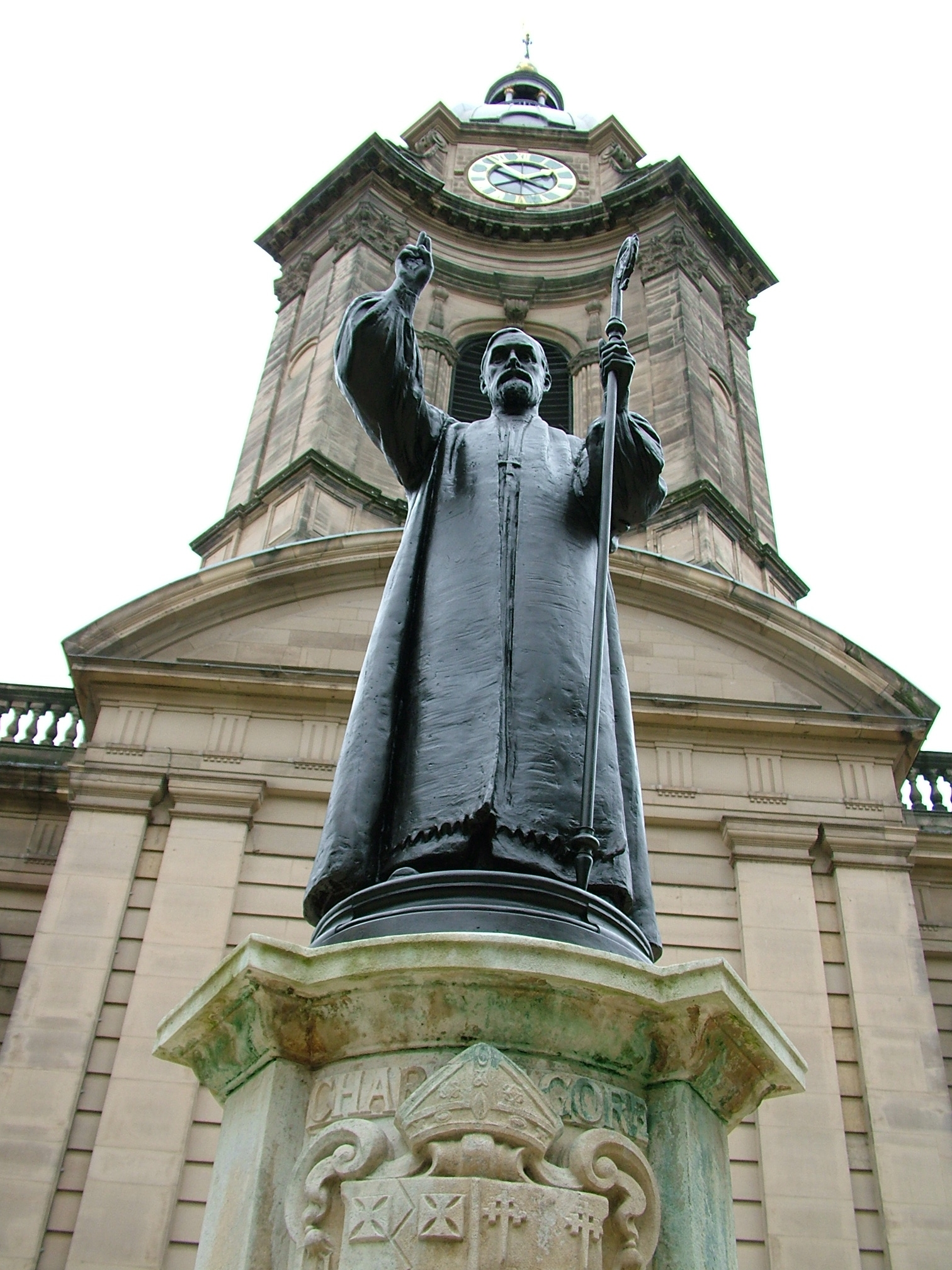 Statue of Charles Gore outside St. Philip's Cathedral - Birmingham , England, where he was its first bishop. By and copyright Tagishsimon, 14th October 2005